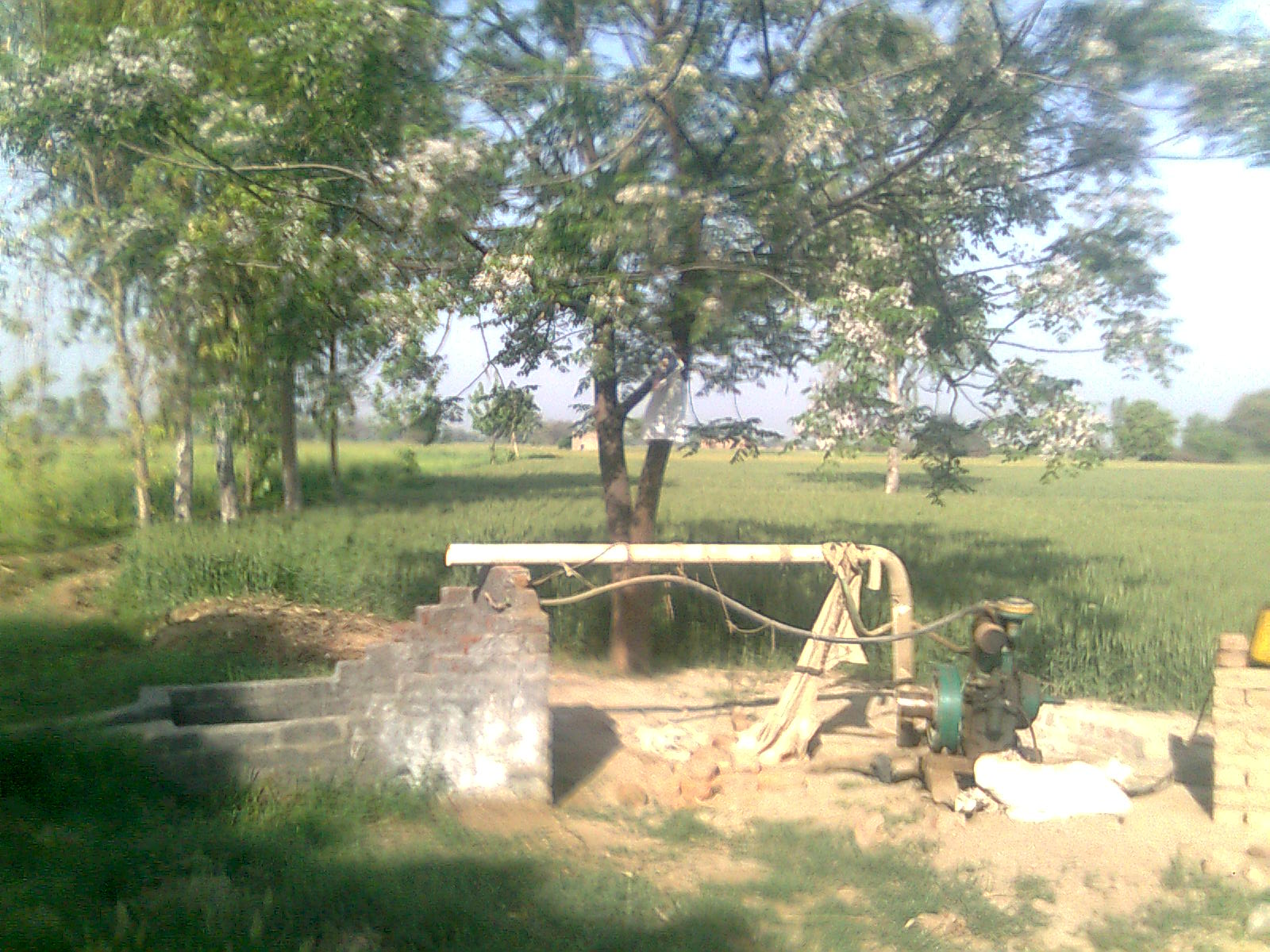 A tube well in the fields of Raipur village of Mansa district in Indian Punjab.